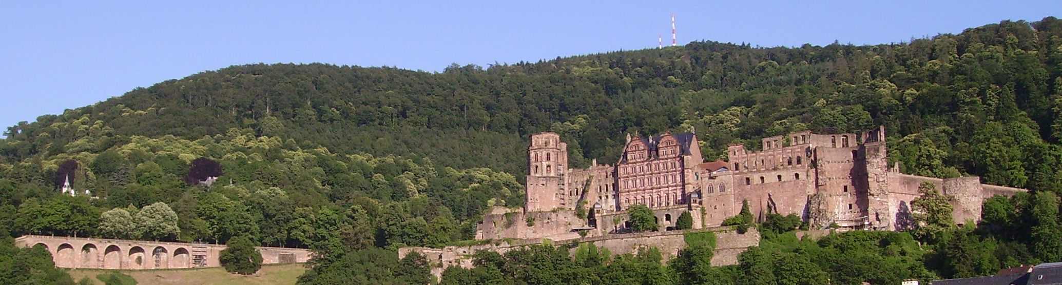 Heidelberg castle (Heidelberger Schloss)